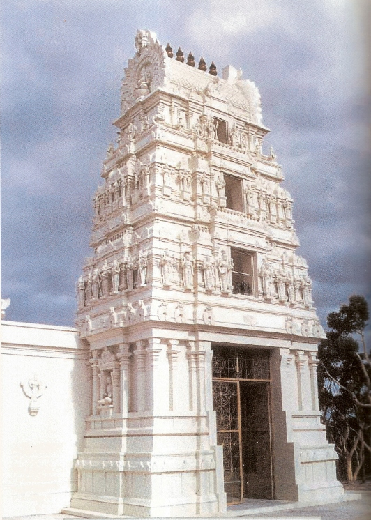 Rajagopuram of the Sri Venkateswara Temple (SVT), Helensburgh, NSW, Australia